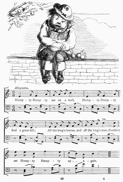 An illustration with music of Humpty Dumpty from : Walter Crane, Mother Goose's Nursery Rhymes, A Fictional Collection of Alphabets, Rhymes, Tales, and Jingles (London, 1877), p. 42.